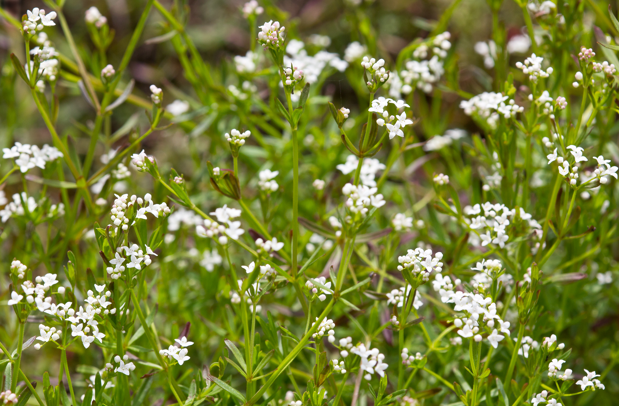 Habitus of Common Marsh-bedstraw, Galium palustre.